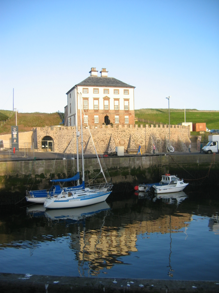 The Harbour at Eyemouth, Scottish Borders